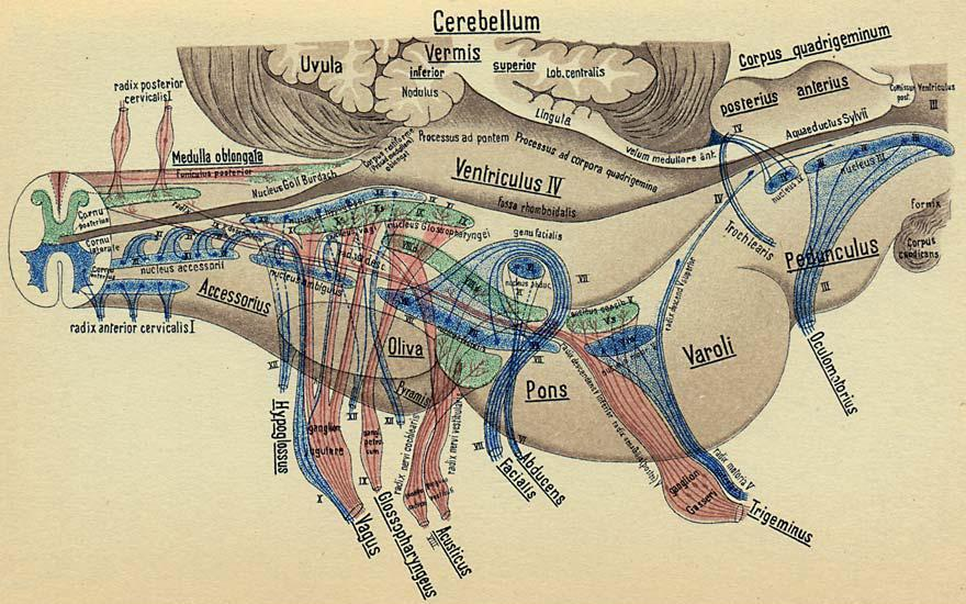 Illustration from Christfried Jakob's Atlas (1895)